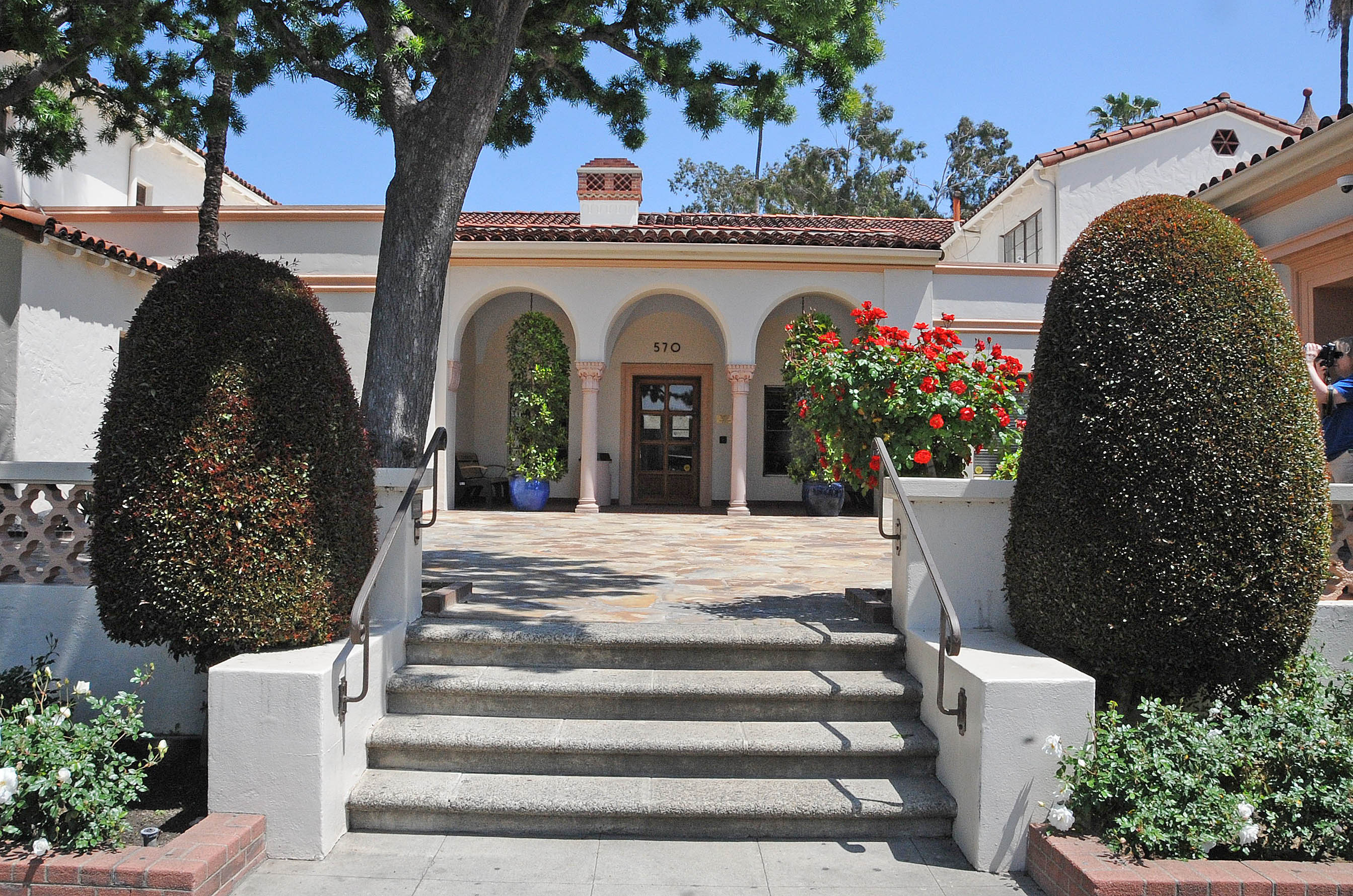 TODD MEMORIAL CHAPEL AND MORTUARY; THS IS A POMONA LANDMARK FOR MANY YEARS. BUILT IN 1929